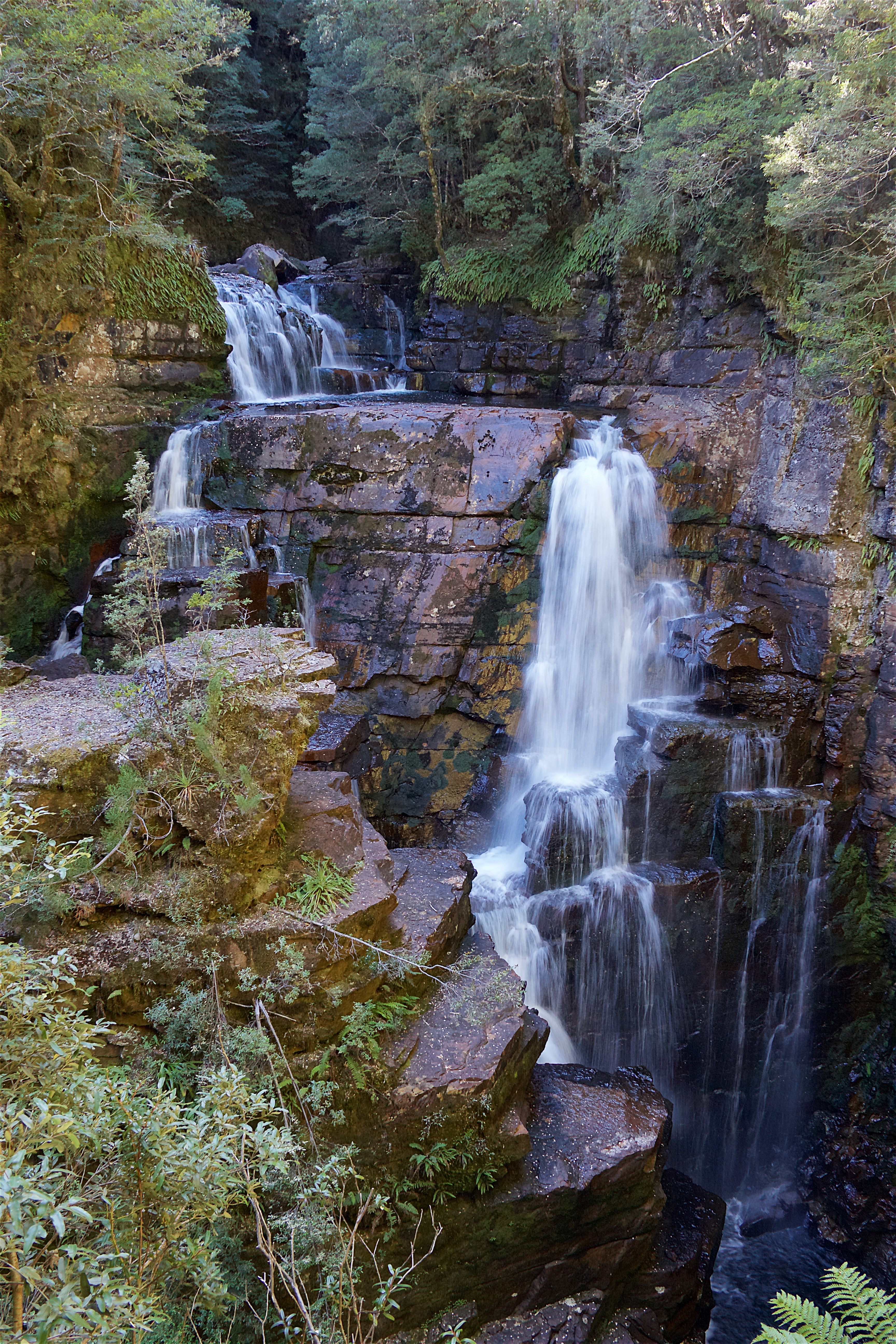 Waterfalls accessible in a few minutes from the Overland Track, Tasmania, Australia. Protected area: Cradle Mountain-Lake St Clair National Park